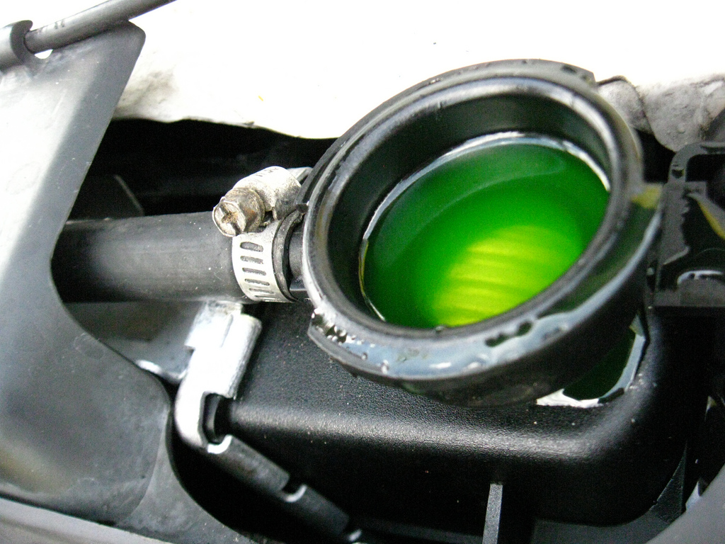 Antifreeze put into car radiator